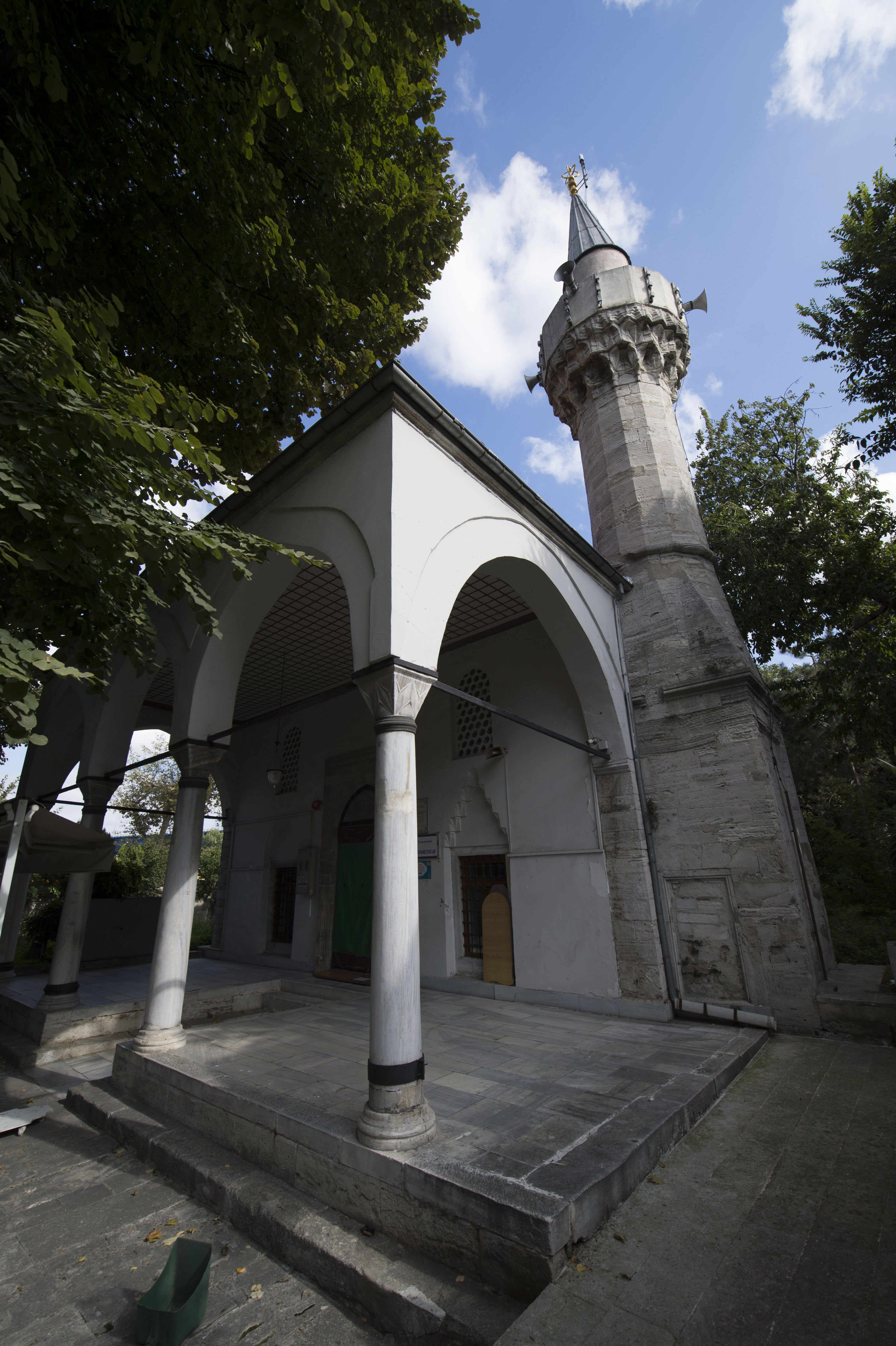 The Defterdar Mahmut Efendi mosque (Defterdar = Lord high treasurer) is ancient in foundation (it seems to be by Sinan), but it was wholly rebuilt in the 18th century. Strolling through Istanbul calls it “of little interest in itself” and I agree (though the setting is nice, in a small garden off a very busy road where traffic speeds along if is not stuck. In the garden is the founder’s open türbe, with a dome supported on arches with scalloped soffits